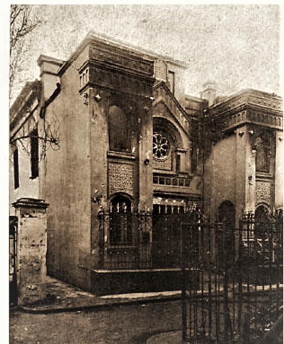 "Beth Hamidraș" Temple, Beit Hamidrash Synagogue, on 78 Calea Moșilor, Bucharest, January 1941